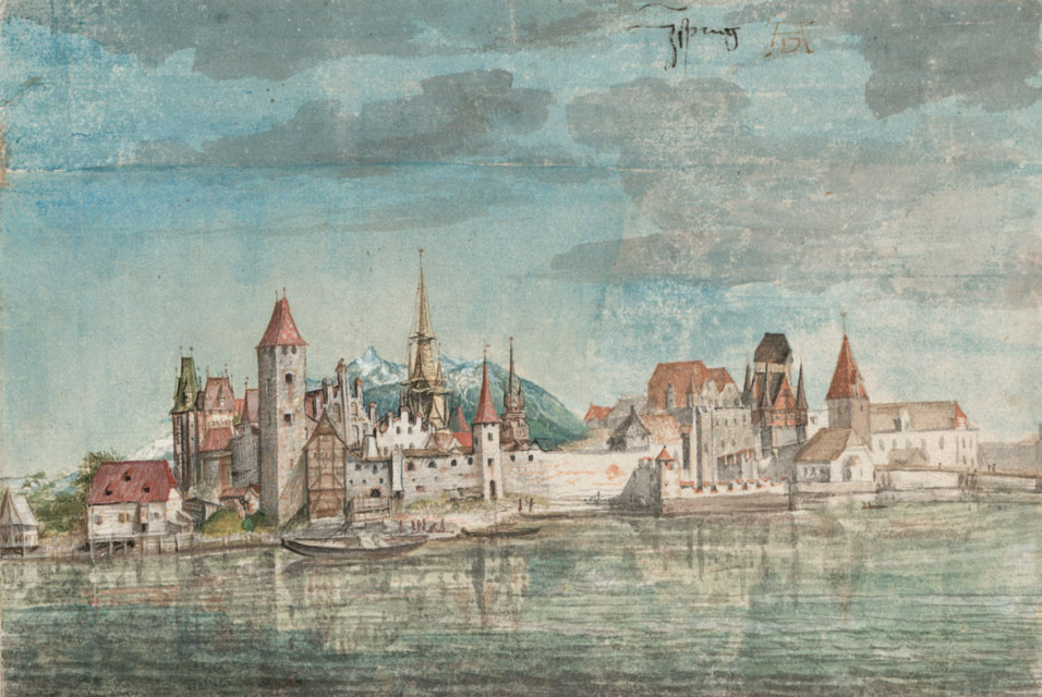 Albrecht Dürer, View of Innsbruck from the North, c. 1496. Watercolor, bodycolour, heightened with white)